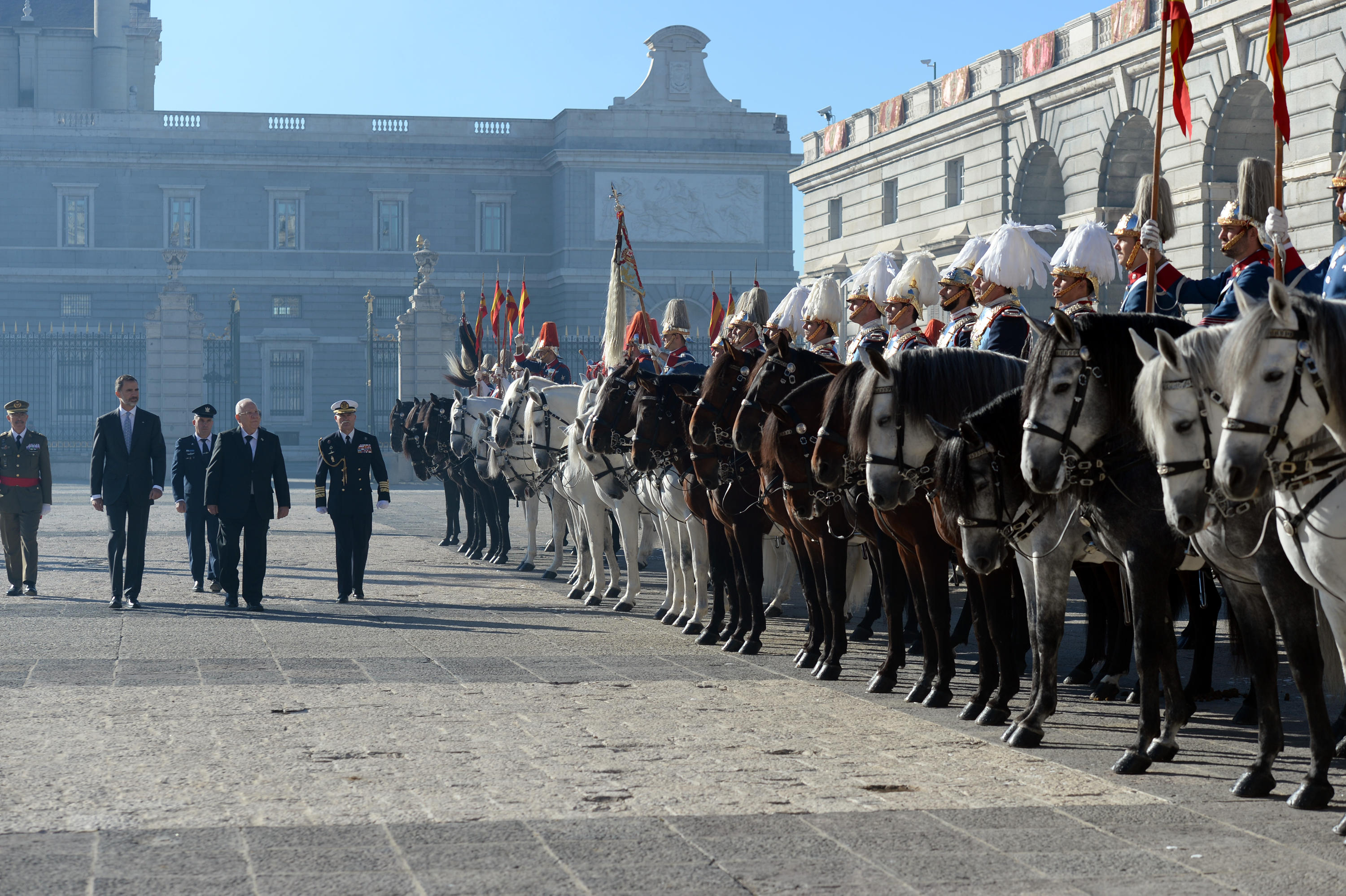 President of the State, Reuven Rivlin, at a special ceremony for a reception at the Spanish royal palace in honor of his arrival. Monday, November 6, 2017. Photo Credit: Haim Tzach / GPO